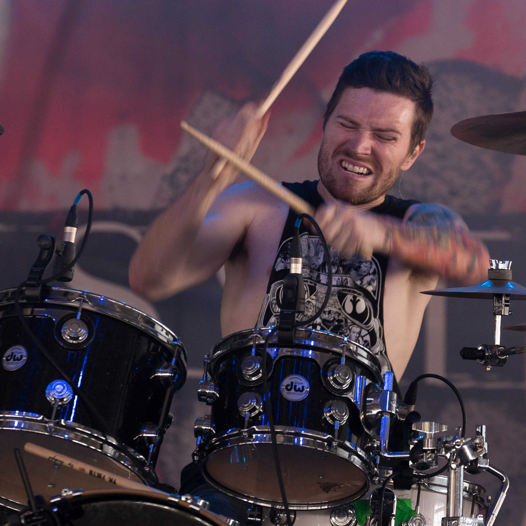 Blessthefall playing on the With Full Force Festival, July 2014